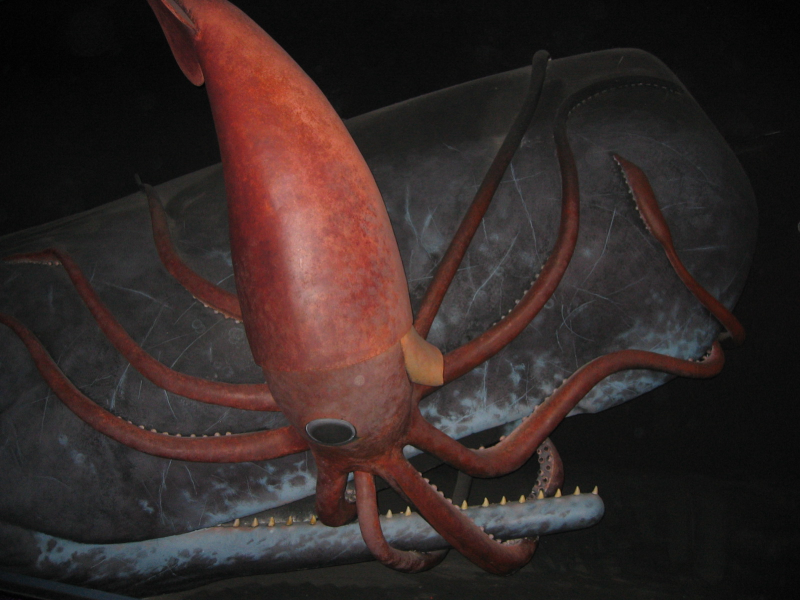 Display @ Museum of Natural History, New York City, USAMuseum of Natural History